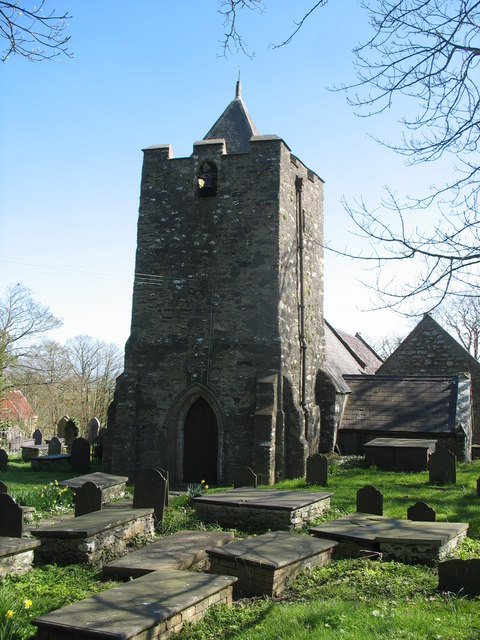 Eglwys y Santes Fair, St Mary's Church, Llanfairynghornwy St Mary was a medieval dedication to a church established by St Pedyr Lanuaur in the 5thC. Parts of the present building date from the 12thC and even the most recent addition - the tower - was built before 1700. John Williams (the artist Kyffin Williams' great-great grandfather) was rector here for 53 years and his son, James Williams, of lifeboat fame, for 51 years.